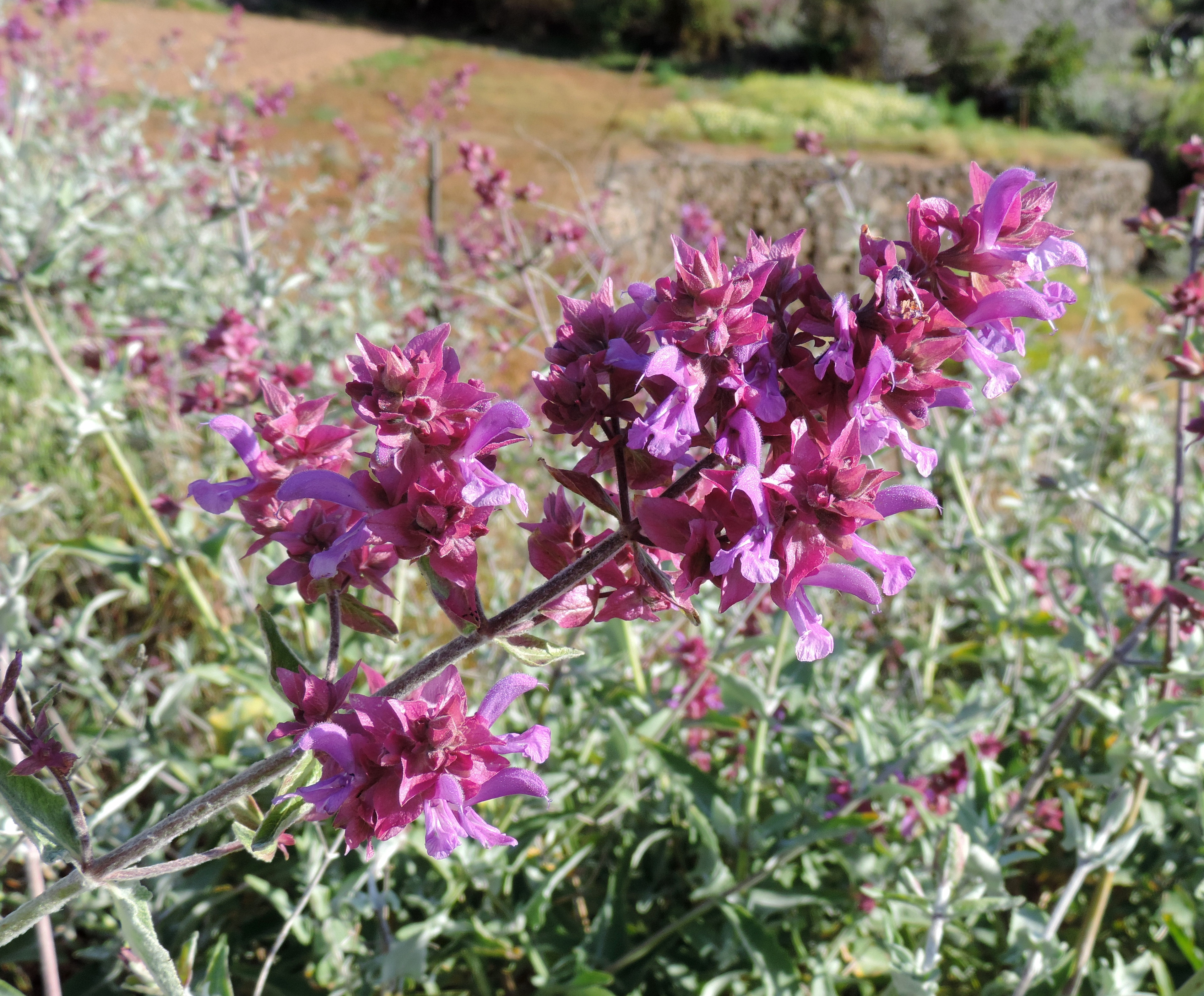 Salvia canariensis in Ingenio, Gran Canaria, Canary Islands